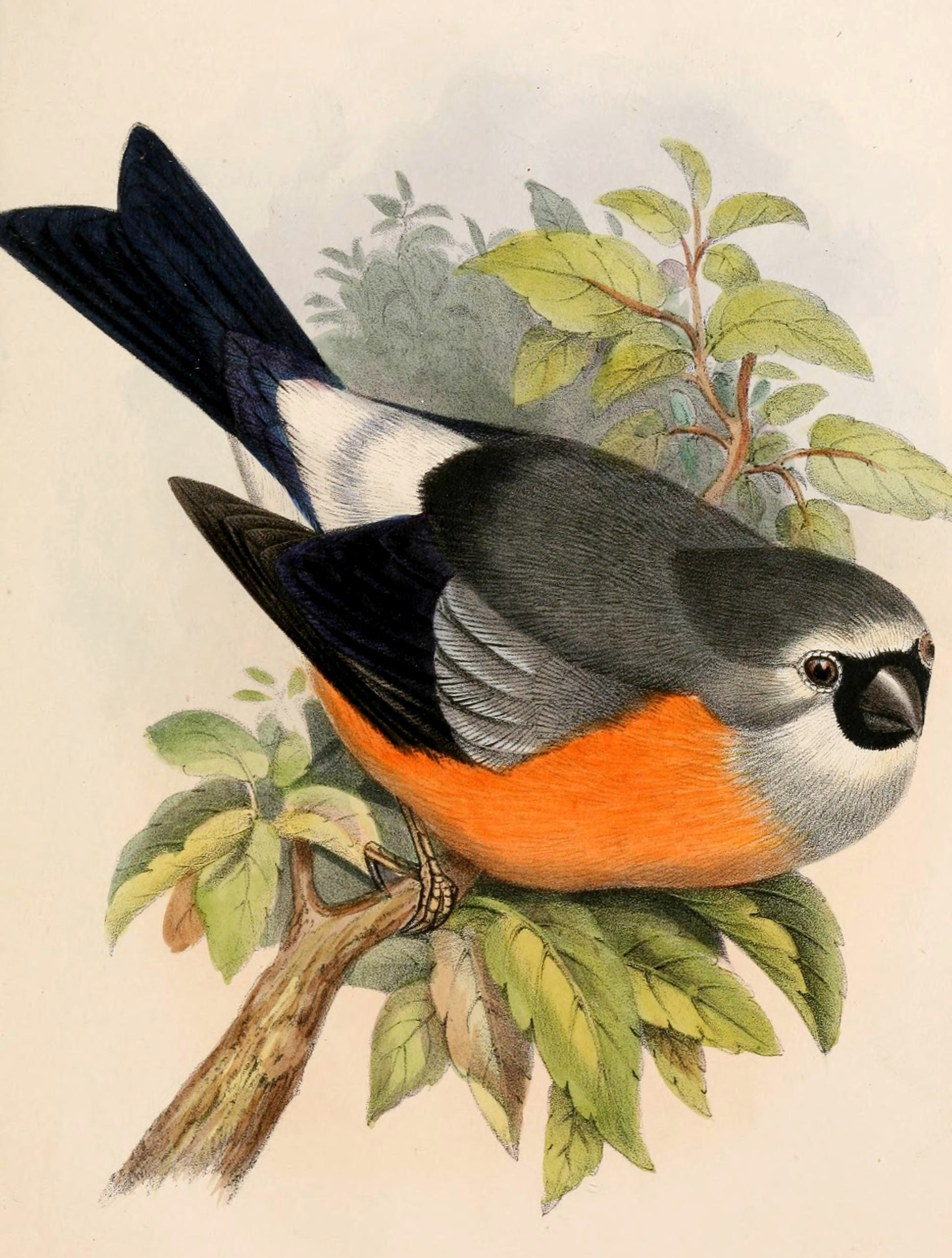 « Pyrrhula erithacus » = Pyrrhula erythaca erythaca (Subspecies of Grey-headed Bullfinch)